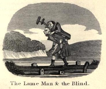 As illustration of the fable of the blindman and the lame in Jefferys Taylor's Aesop in Rhyme, 1820